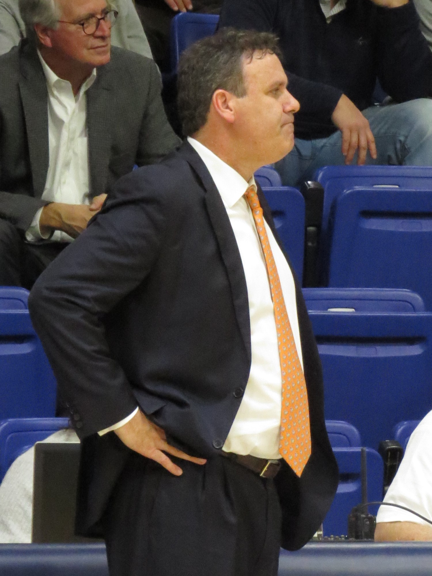 Longwood University head basketball coach Griff Aldrich, coaching at Willett Hall in Farmville, Virginia in December 2018.